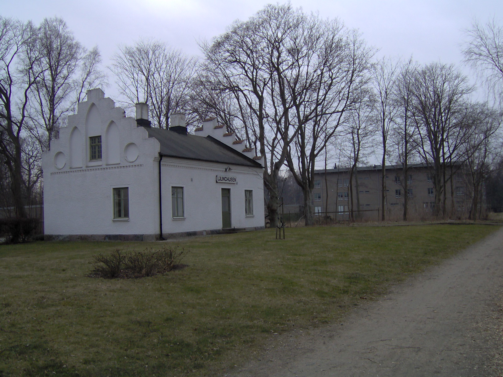 Ljunghusen train station 2005, the track was removed in 1971. The houses in the background were built just a year ago. I remember from my childhood (early 90's, late 80's) that a resemblence of the platform was still there... In later years, that too must have been removed, cause today there are no traces of it. Source: taken by user march 23rd 2005